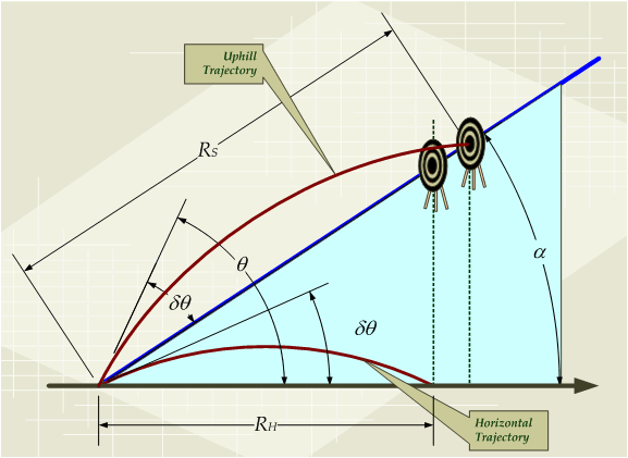 I captured this image myself. I release all rights to it.